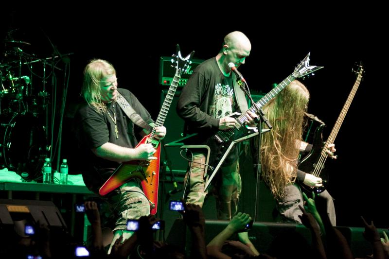 Nile (from left Karl Sanders, Dallas Toler-Wade and Chris Lollis) Live @ Santana Hall - 18/03/2010 - São Paulo, Brasil